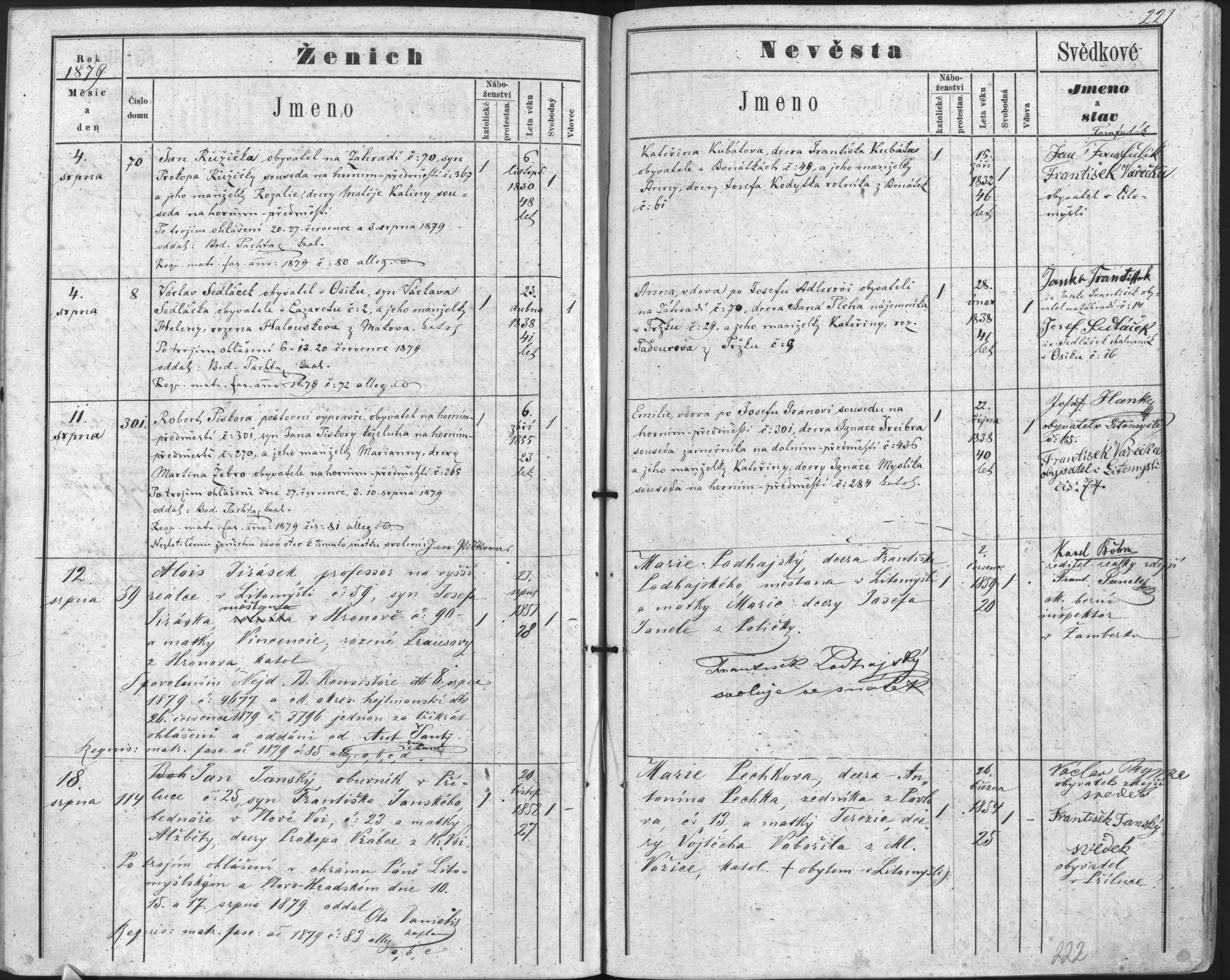 Page 222 of a marriage register of a Roman Catholic parish in Litomyšl, Czech Republic. The whole book covers the period 1865-1884. The second from the bottom refers to writer Alois Jirásek.